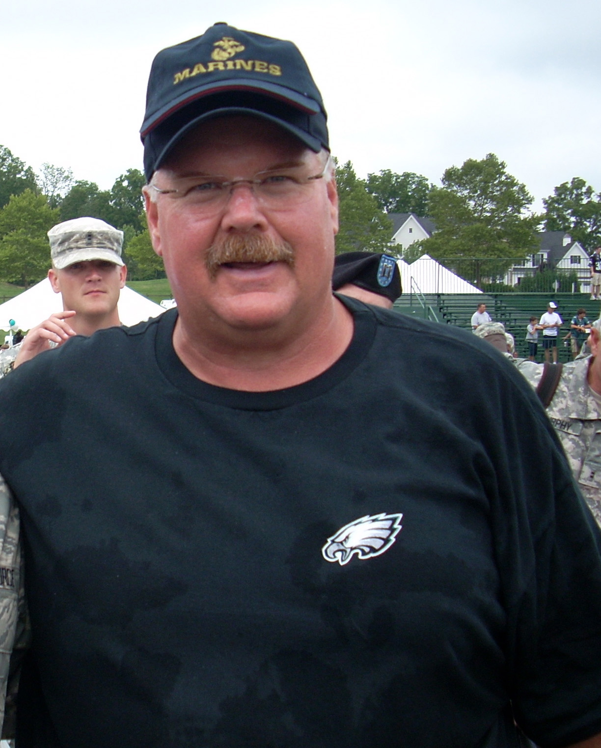 Andy Reid, Kansas City Chiefs coach, after signing a deal Kansas City, Missouri.